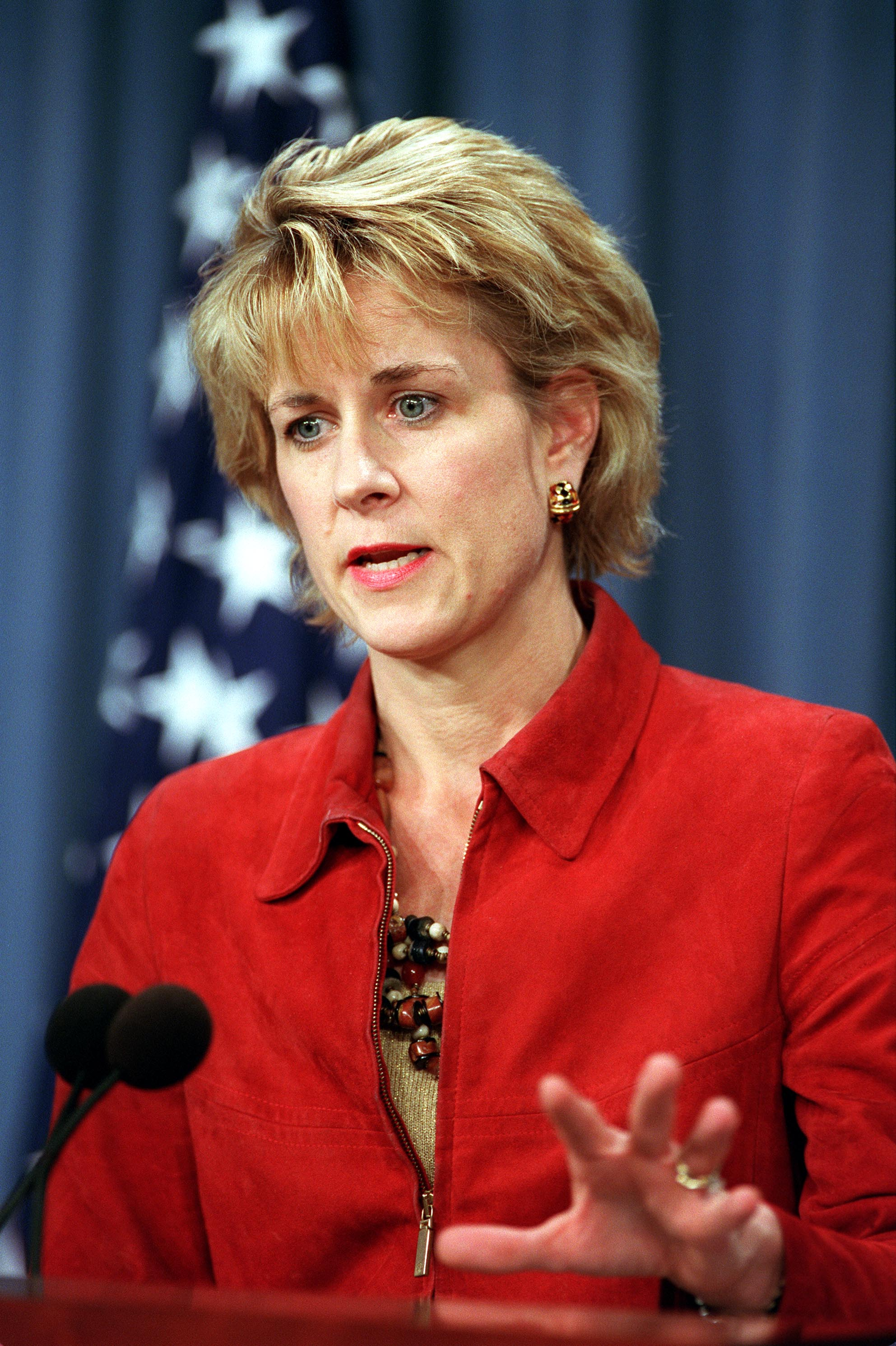 Assistant Secretary of Defense for Public Affairs Victoria Clarke briefs reporters at the Pentagon on October 17, 2001, on the progress of the U.S. military action against the forces of the al Qaeda terrorist organization and the ruling Taliban regime in Afghanistan.